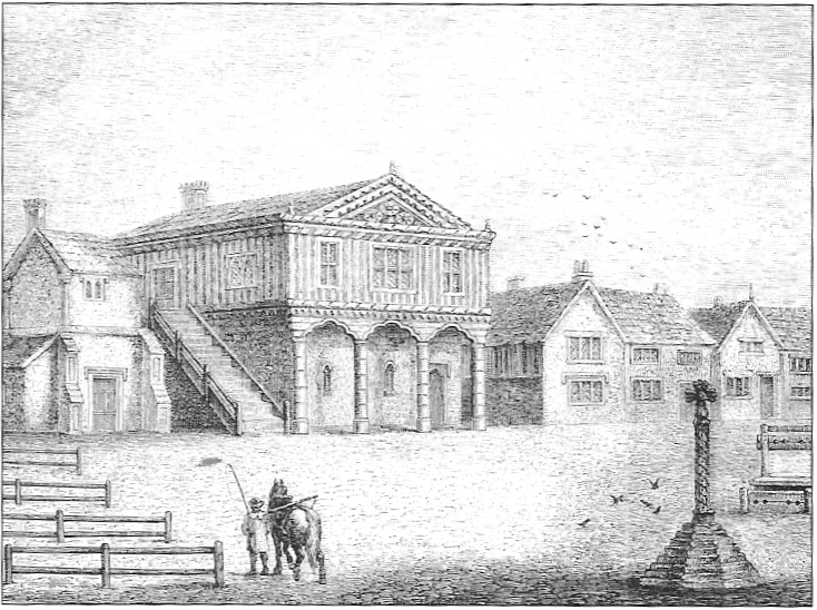 The Town Hall and Market Place in Rotherham, of unknown date.